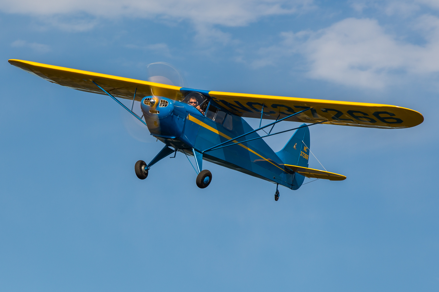 Interstate Cadet S-1A NC37266 owned by The Lost Aviators of Pearl Harbor, LLC and flown by Lt. Col. (Ret) Greg Anders.